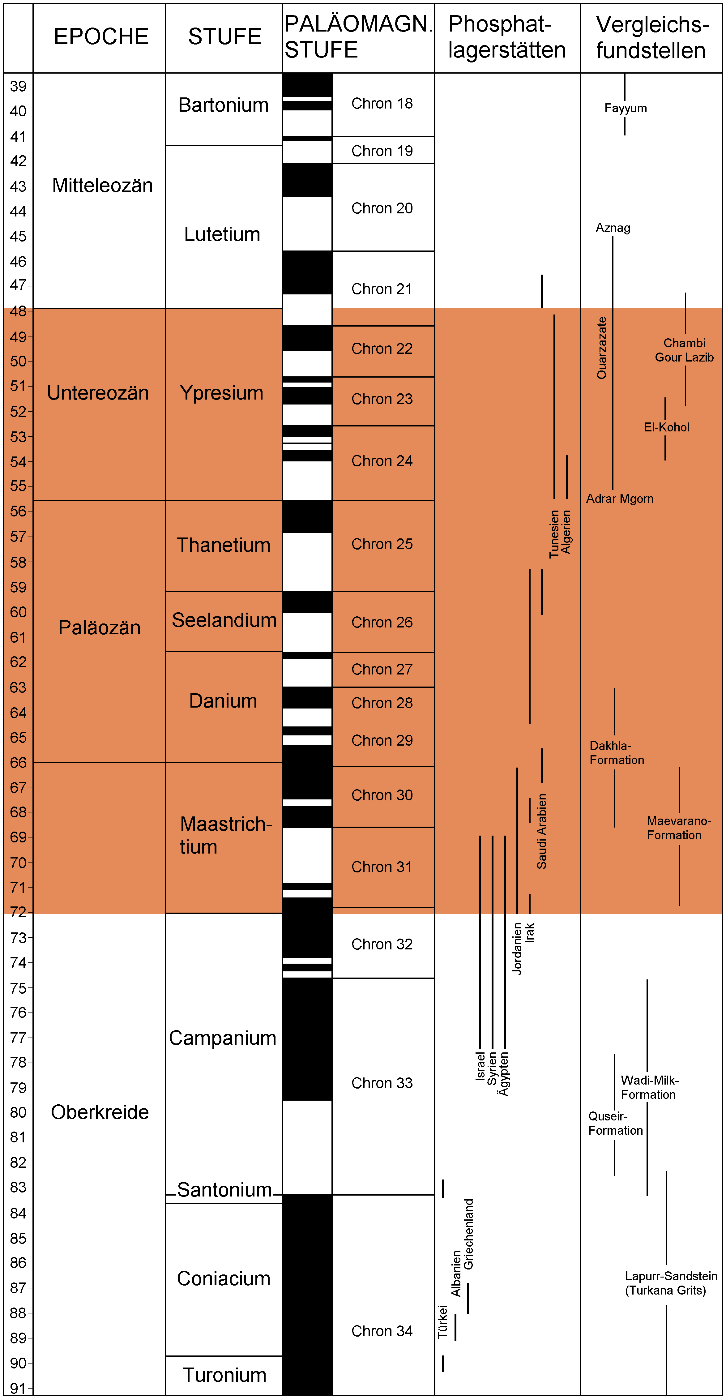 Schematic Stratigraphy of Ouled Abdoun basin, Centzral Morocco, mainly created after: Johan Yans, M'Barek Amaghzaz, Baâdi Bouya, Henri Cappetta, Paola Iacumin, László Kocsis, Mustapha Mouflih, Omar Selloum, Sevket Sen, Jean-Yves Storme and Emmanuel Gheerbrant: First carbon isotope chemostratigraphy of the Ouled Abdoun phosphate Basin, Morocco; implications for dating and evolution of earliest African placental mammals. Gondwana Research 25, 2014, pp. 257–269